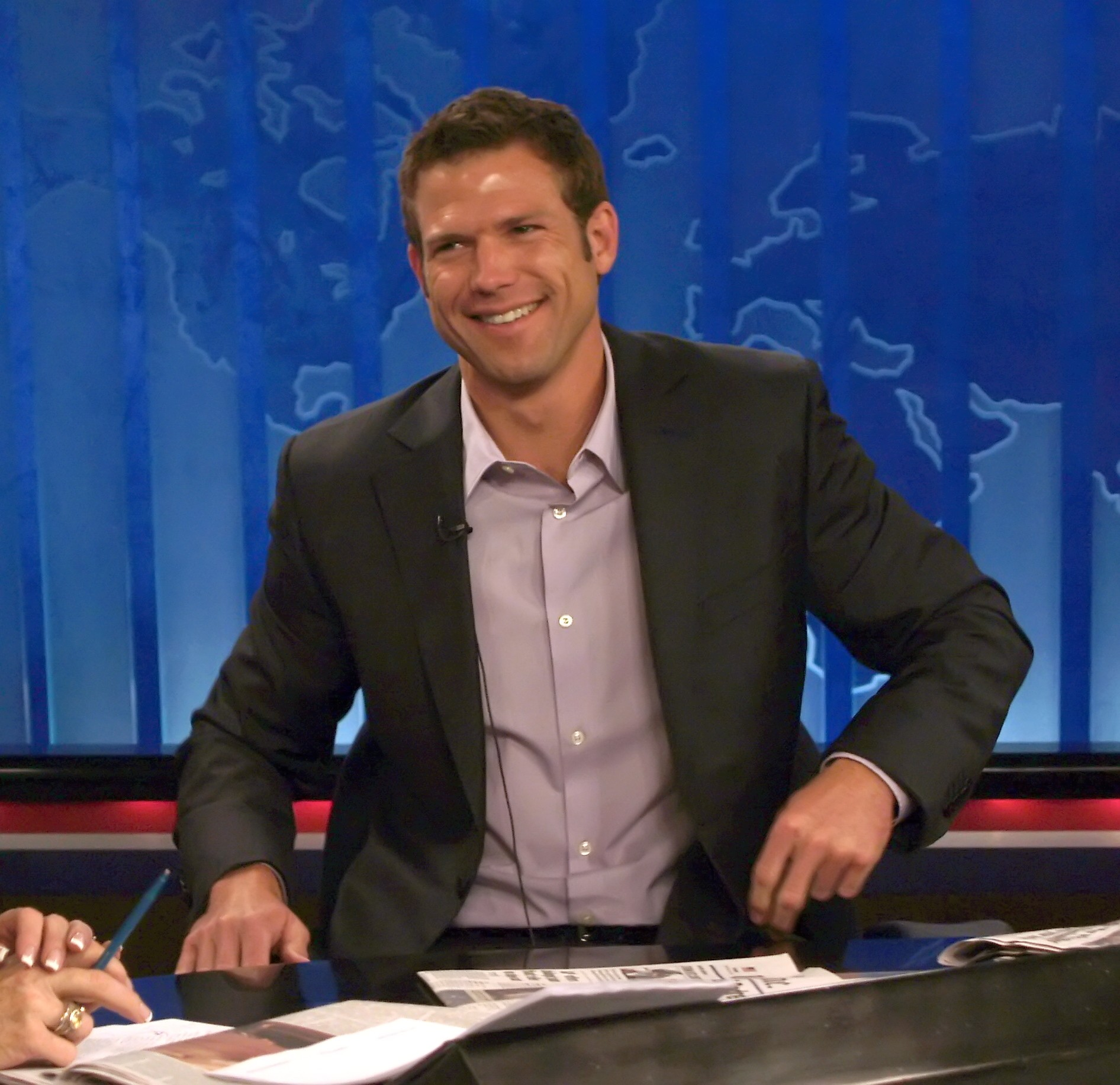 Photo of Dr. Travis Stork when he visited San Diego. Please acknowledge "Phil Konstantin" as the creator of this photograph.